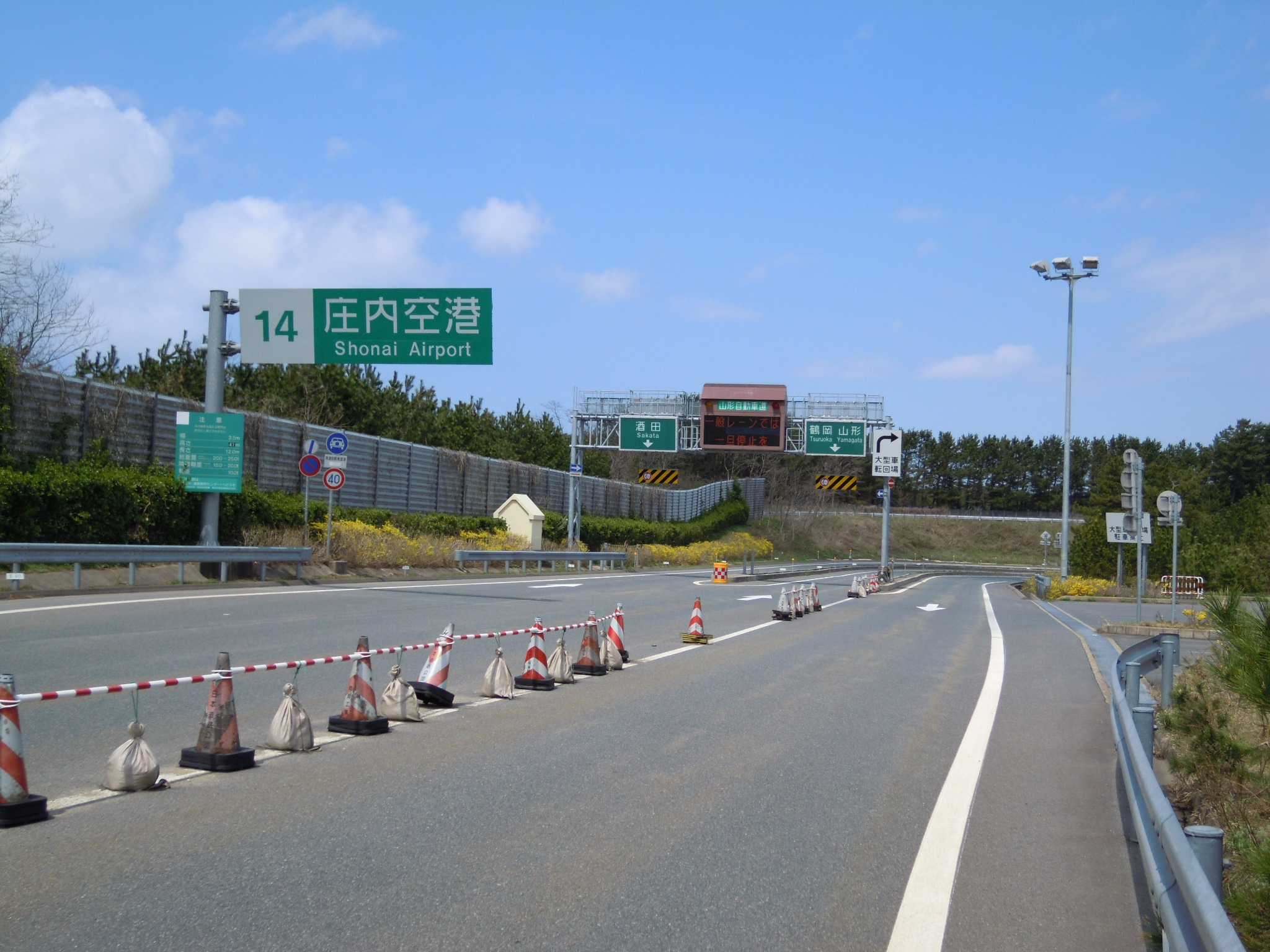 This Interchange, Shonai-Airport Interchange, is on Yamagata Expressway(Now:Nihonkai-Tohoku Expressway), in Sakata City, Yamagata Prefecture, Japan.